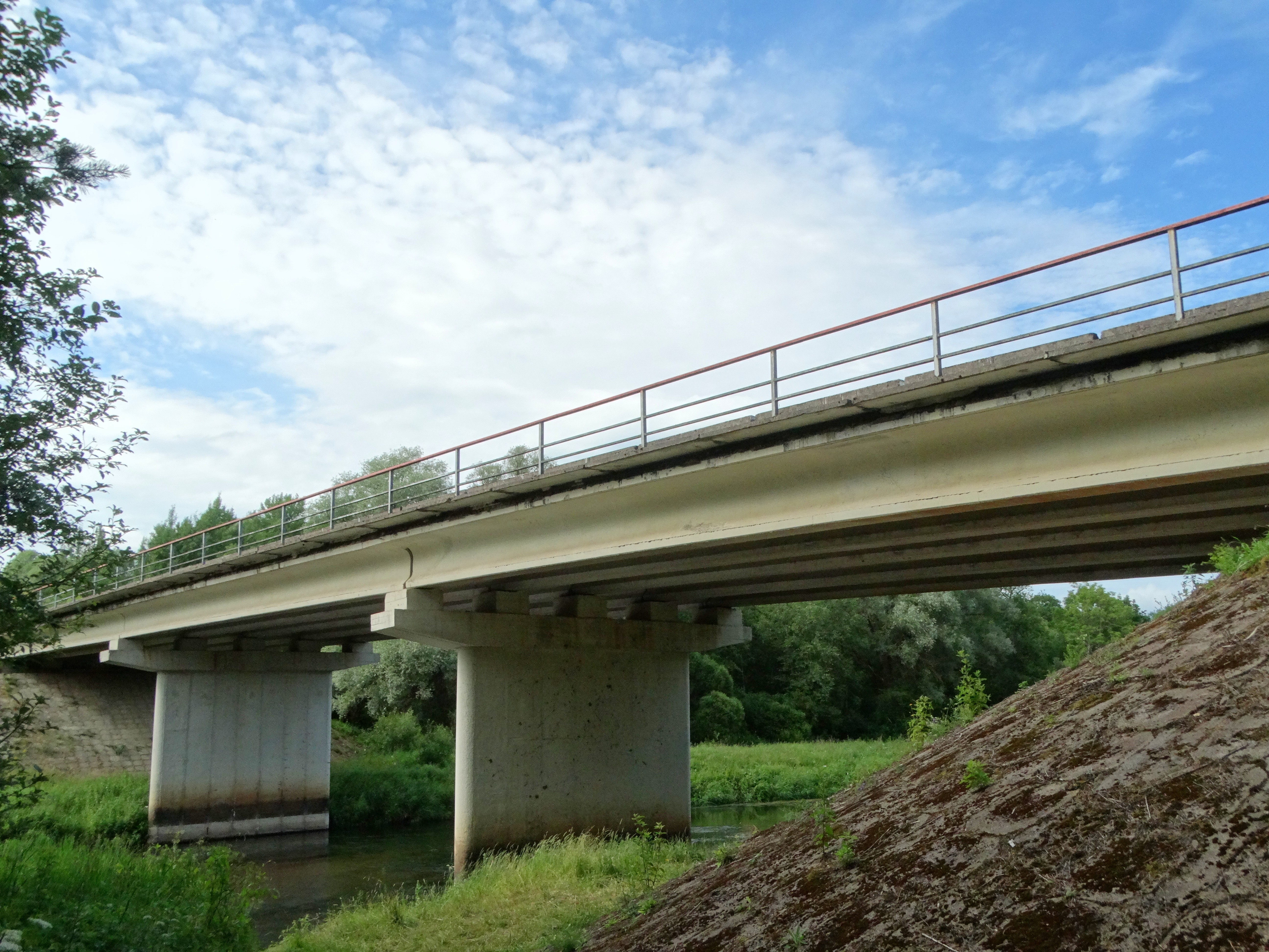 Bridge on Šventoji River, Sedeikiai, Anykščiai district, Lithuania